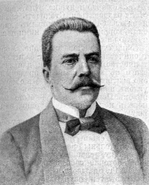 Yegormyshev, Konstantin Lvovich